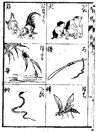 One page of Eiri Chie no Wa (Circle of Wisdom Illustrated): primary language textbook published in 1870 in Japan. From the Modern Degital Library of National Diet Library.